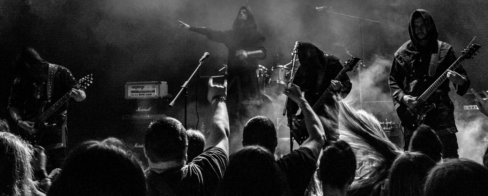 Graveland on Kolovorot fest 2017